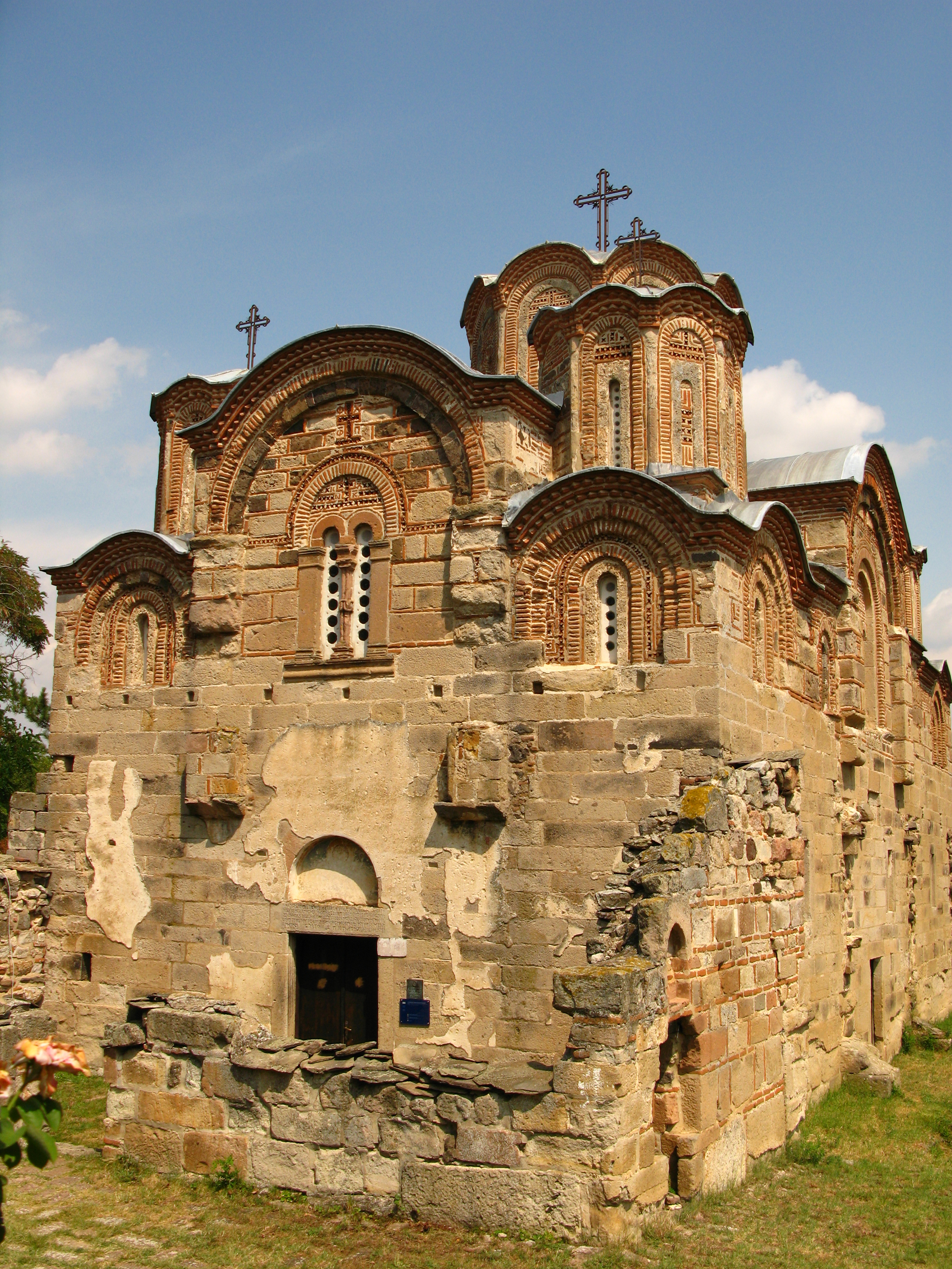 Monastery of Saint George in Staro Nagorichane, Macedonia.